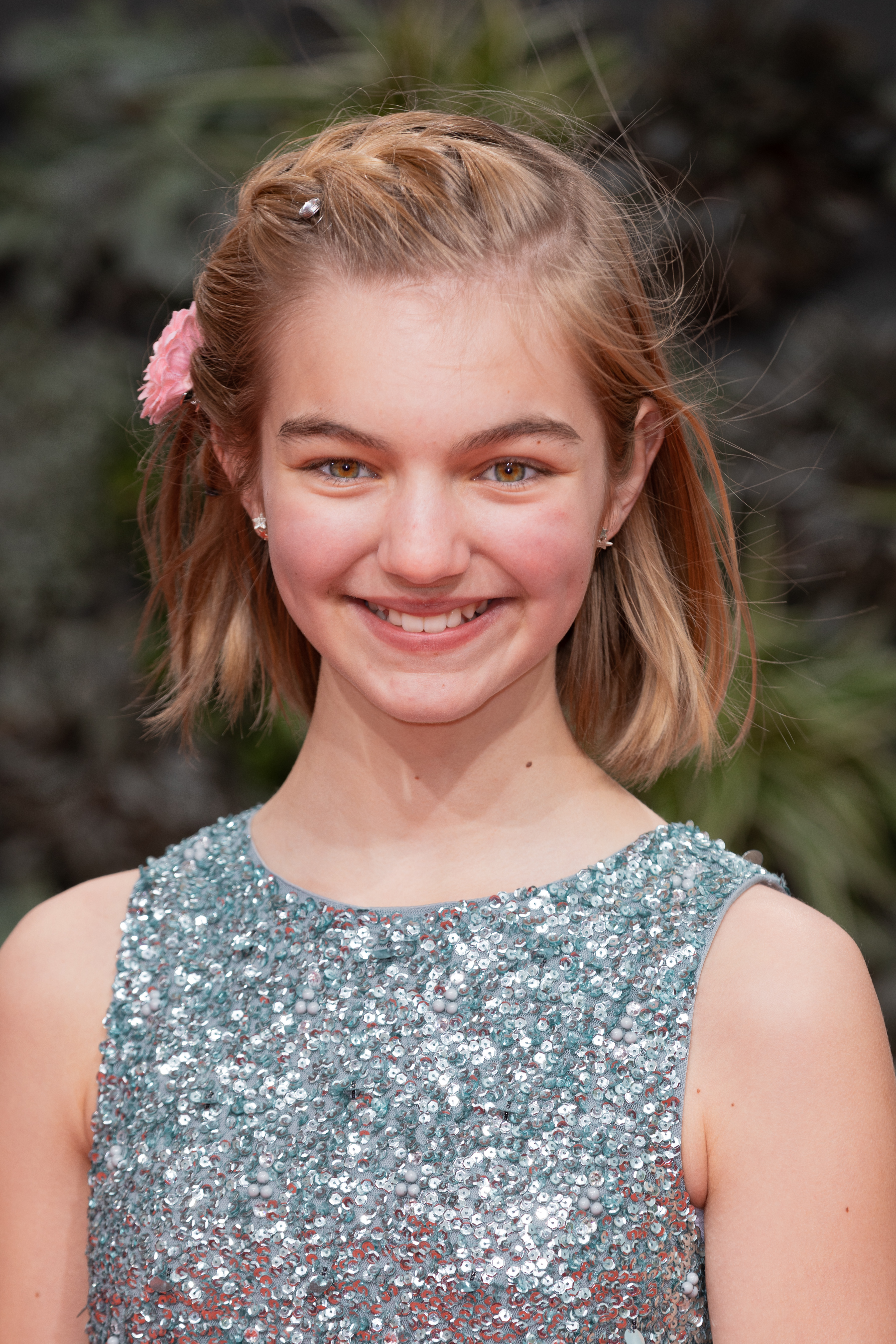 The film team of Rocca verändert die Welt on the red carpet of the German Film Award 2019, Palais am Funkturm, Berlin.